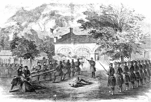 Harper's Weekly Illustration of U.S. Marines attacking the firehouse which John Brown used as a fort during his raid on Harper's Ferry. From: Caption: 'Harper's Weekly' in November 1859 reads: "The Harper's Ferry Insurrection.--The U.S. Marines storming the Engine-House.--Insurgents firing through holes in the wall." Year: 1859. Image Credit: Historic Photo Collection, Harpers Ferry NHP.